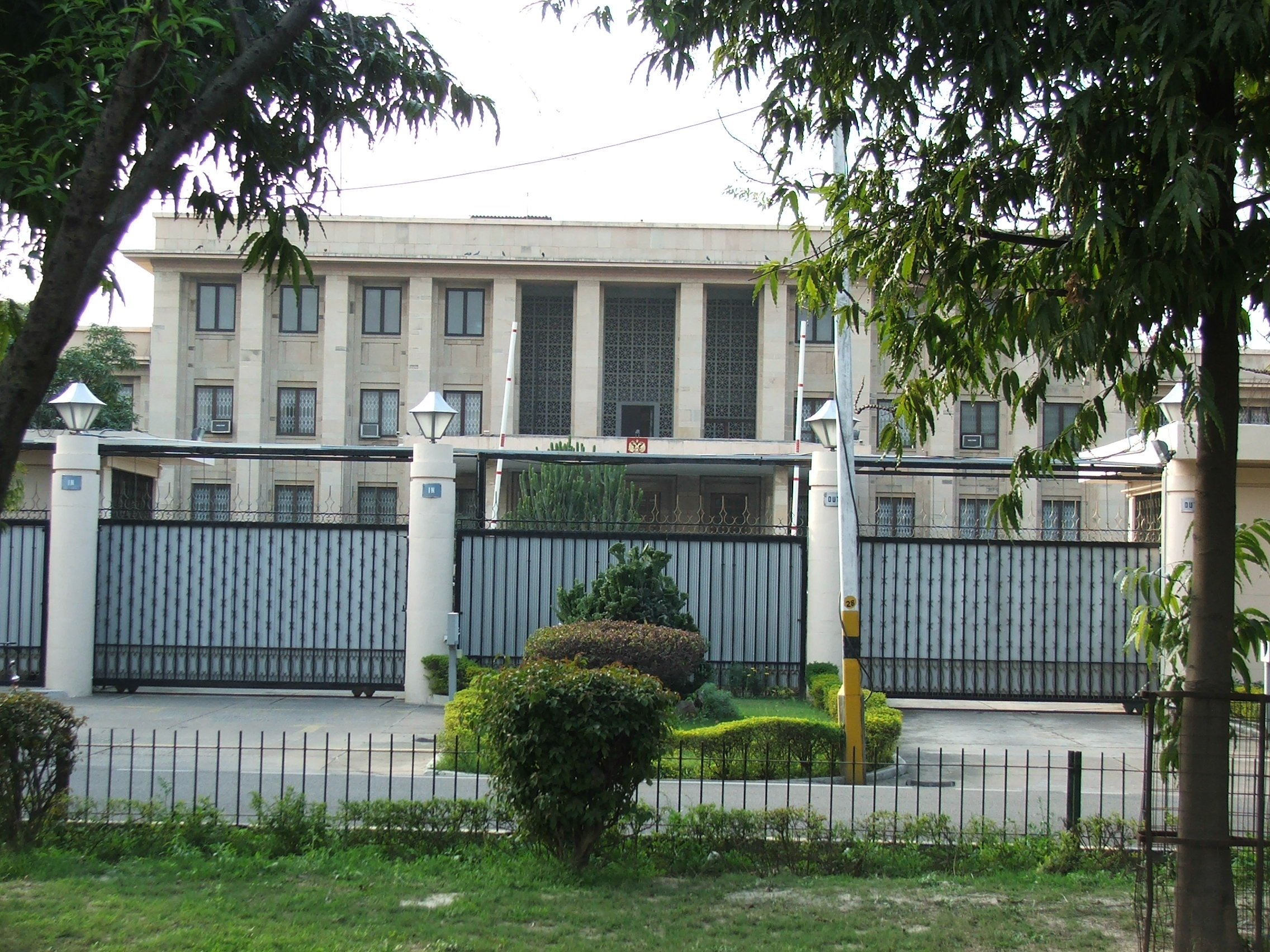 Embassy of Russia in New Delhi, India.